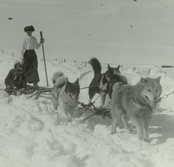 Eskimo dogs (used in Antarctic Expeditions) at the Hotel Kosciusko. N.S.Wales Australia [sled pulled by huskies]